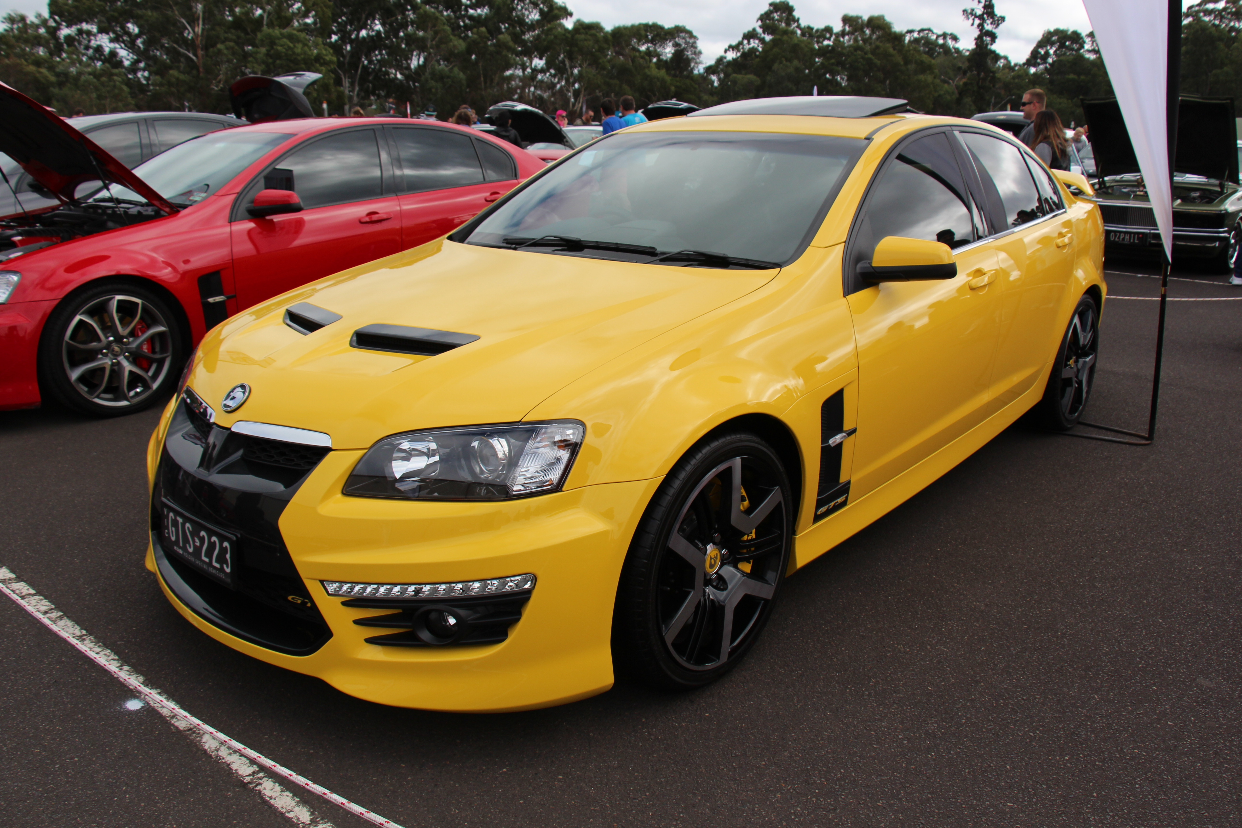 Hazard Yellow. Built from 2006-13, the 4th generation Commodore, this time fully designed in Australia, on a completely new platform, not based on the European Opel like previous models. Engines were carried over from the VZ. The Clubsport was the base model offered by HSV, (a company that improved performance as well as adding a more sporty appearance) The GTS is the upmarket model available from HSV, also available was the , Calais based Senator and Maloo Ute. An update, the Series II was introduced in late 2010, it got a new front fascia featuring a larger grille and bigger lower air intakes as well as restyled headlamps Engine; 6.0 V8.